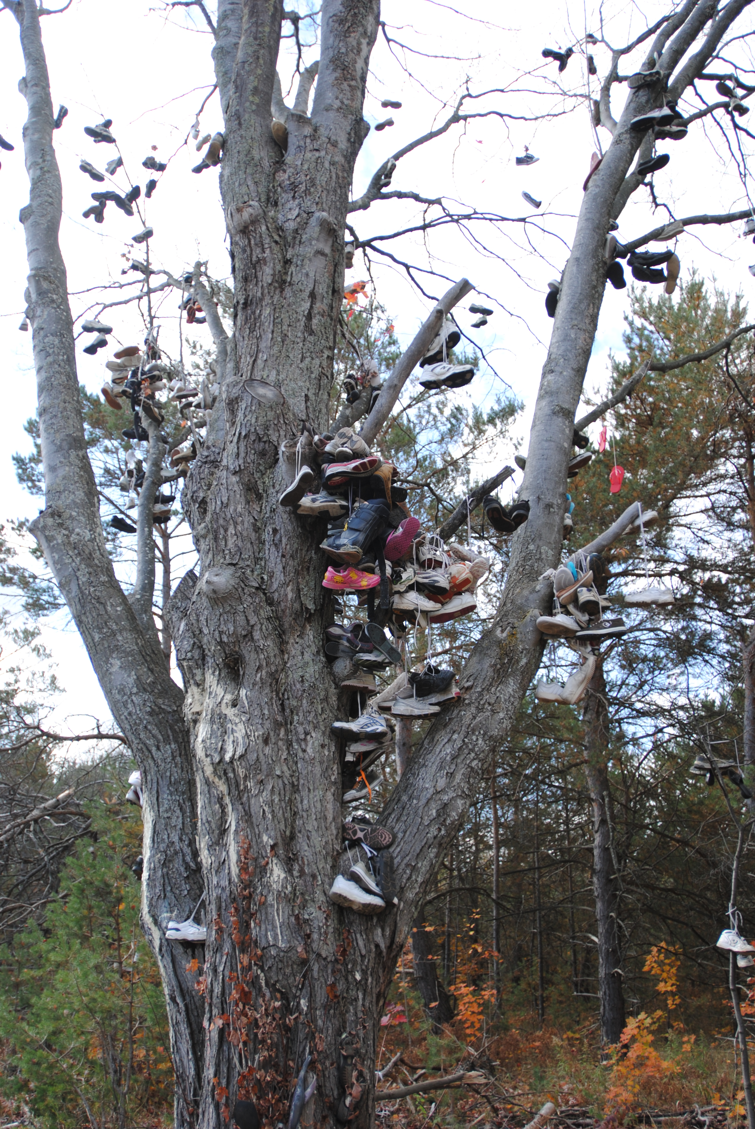 A shoe tree north of Kalkaska 3 miles (4.8 km) north of town on US 131 on the west side of the road.